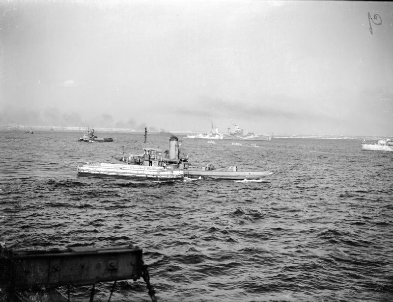 The Allied Landings in Italy, September 1943- Reggio, Taranto and Salerno Taranto, 9 September 1943 (Operation Slapstick): Italian lighters and tugs help to unload Allied ships in Taranto harbour.